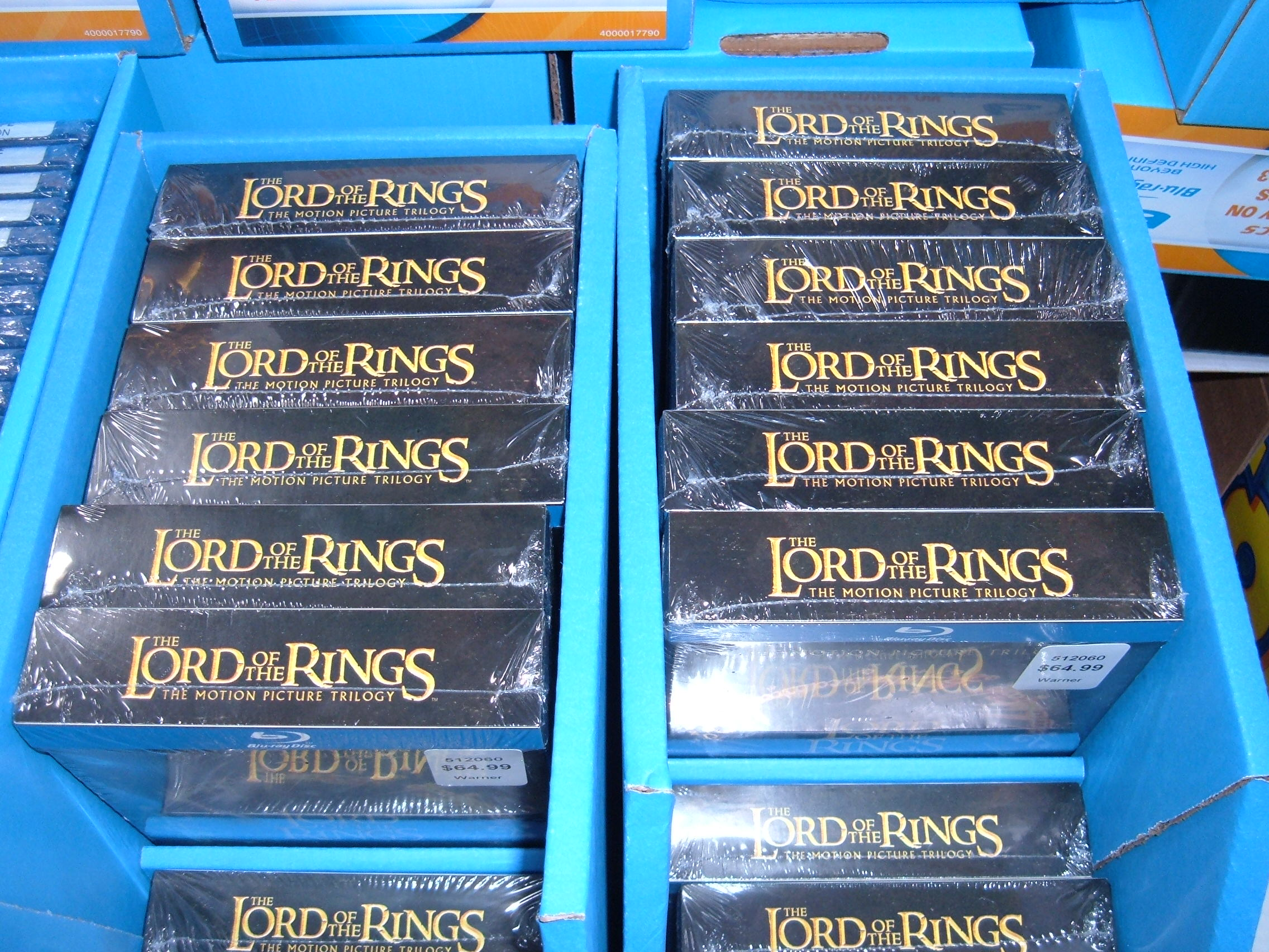 The Lord of the Rings Trilogy Blu-ray box set at Costco in South San Francisco, California on El Camino Real.